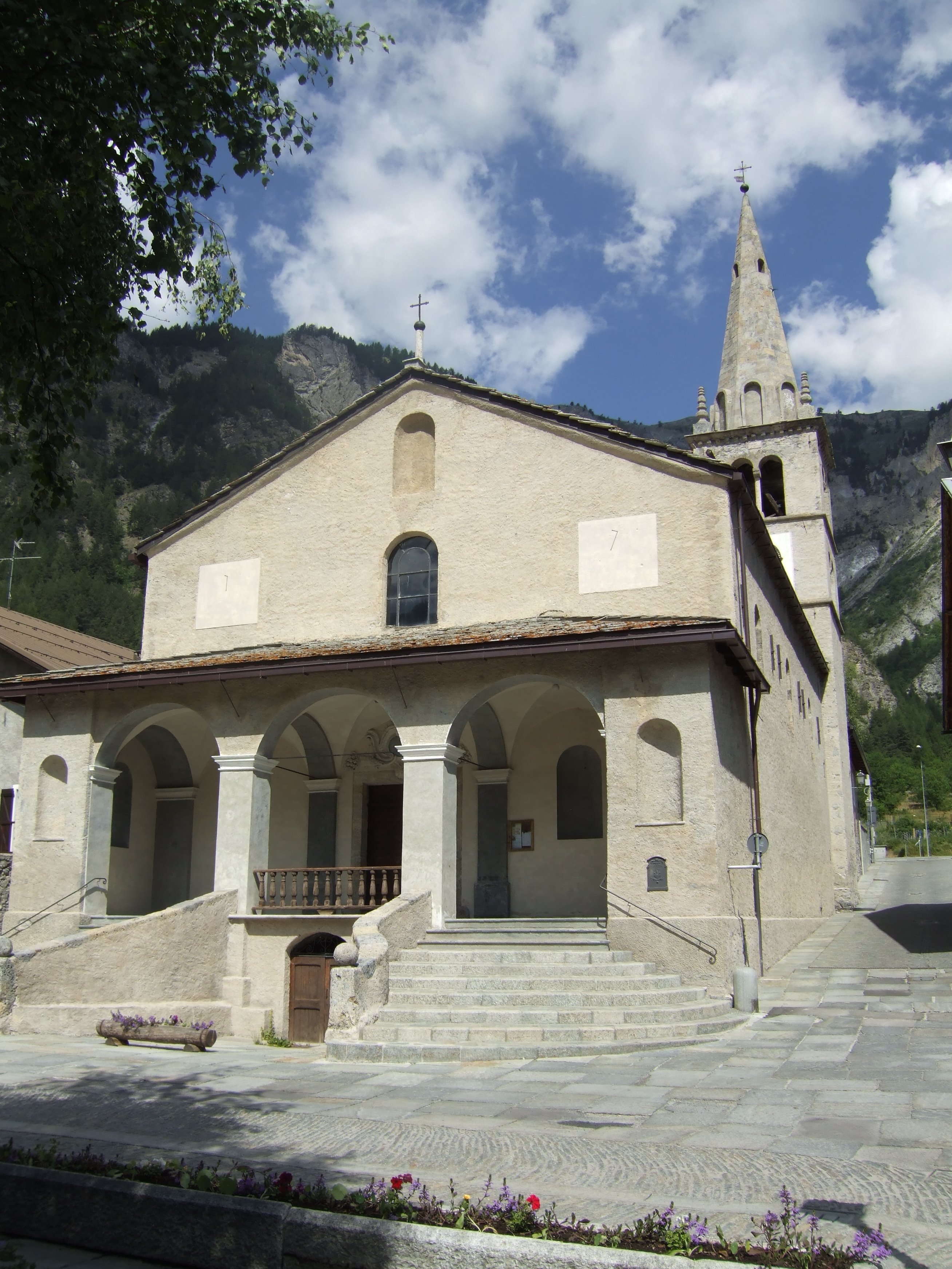 Melezet (Bardonecchia) - Parish Church